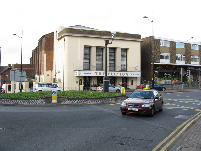 The Clifton, Sedgley. A former cinama, now a Wetherspoon's pub.